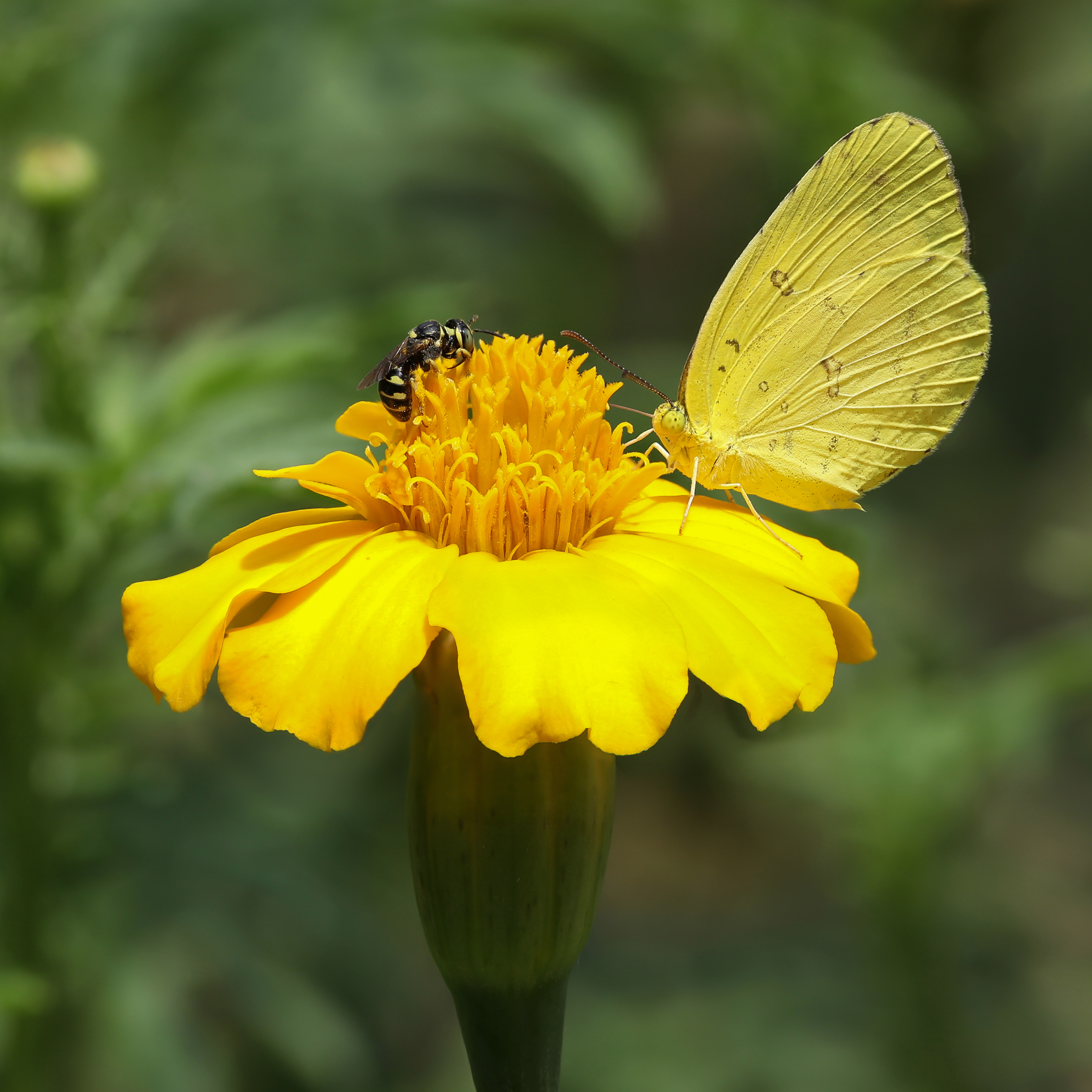 Vespidae (wasp) and eurema blanda (three-spot grass yellow) butterfly on a tagetes lucida (marigold), in Laos. Focus stacking picture from 7 photos. Peak of the dry season.